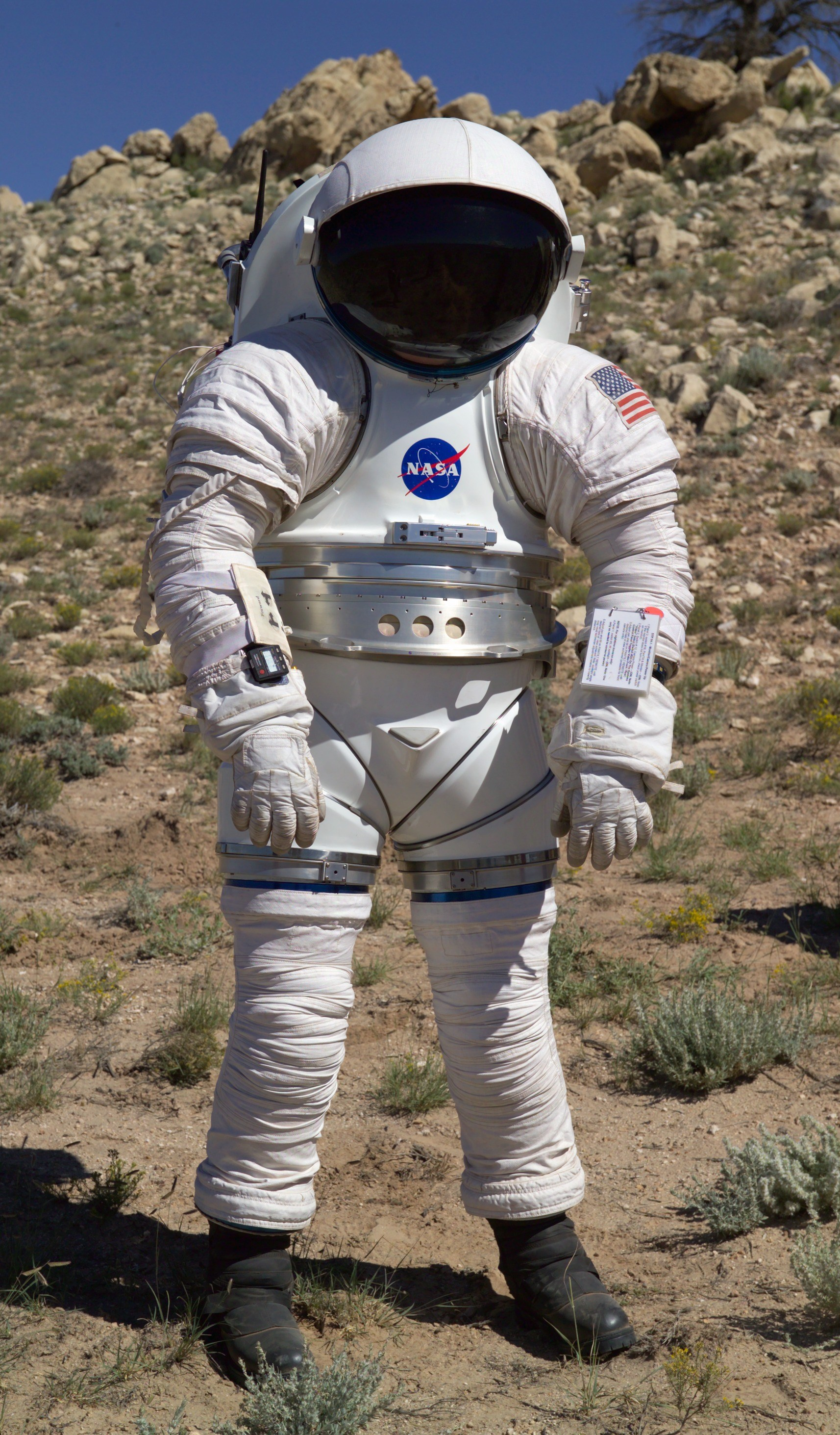 JSC2004-E-43624 - Dean Eppler, equipped with a Mark-III suit, takes a stroll in Arizona's high desert as part of a NASA-led team using the rugged terrain and variegated climate to try out prototype spacesuits and innovative equipment that may help America pursue the Vision for Space Exploration to return the Moon and travel beyond. The Desert Research and Technology Studies (RATS) team is led by scientists from the Johnson Space Center and the Glenn Research Center. Eppler spent a number of long sessions attired in the planetary surface exploration suit technology demonstrator as he interfaced with much of the gear used during the field trip.